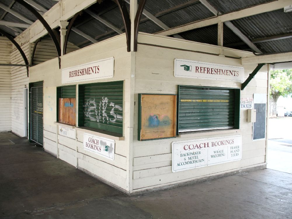 Maryborough Railway Station Complex, 1990s refreshment kiosk (2007)